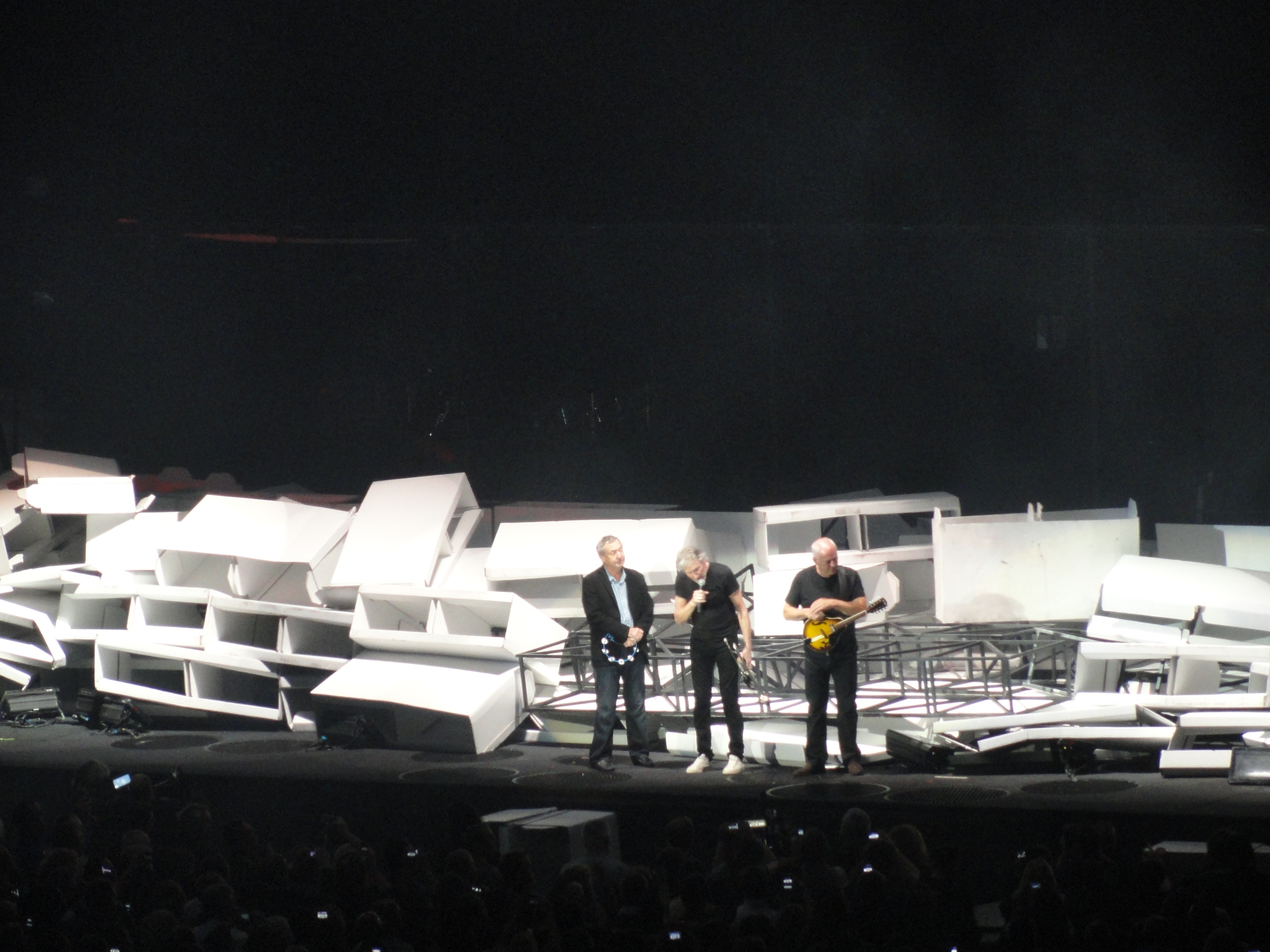 Nick Mason, Roger Waters and David Dilmour, The Wall Live in The O2, London